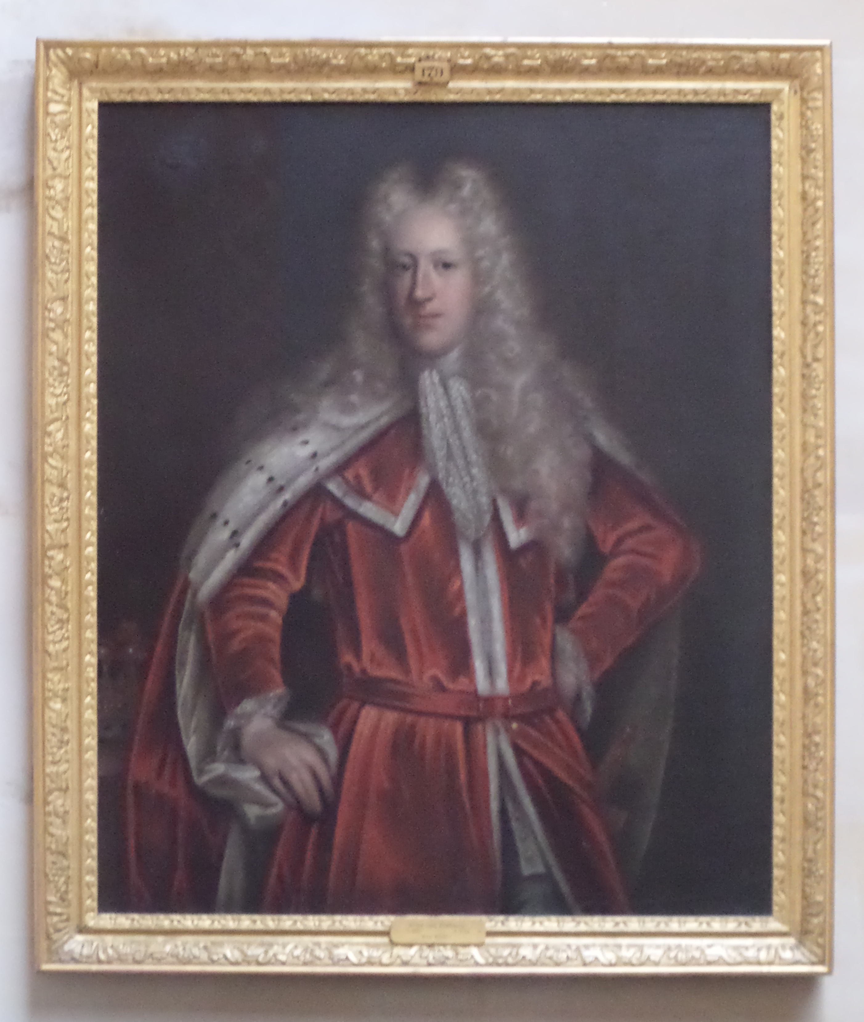 William Gordon, Lord Strathnaver. Painting, possibly a copy, displayed in Dunrobin Castle in Sutherland, Scotland.